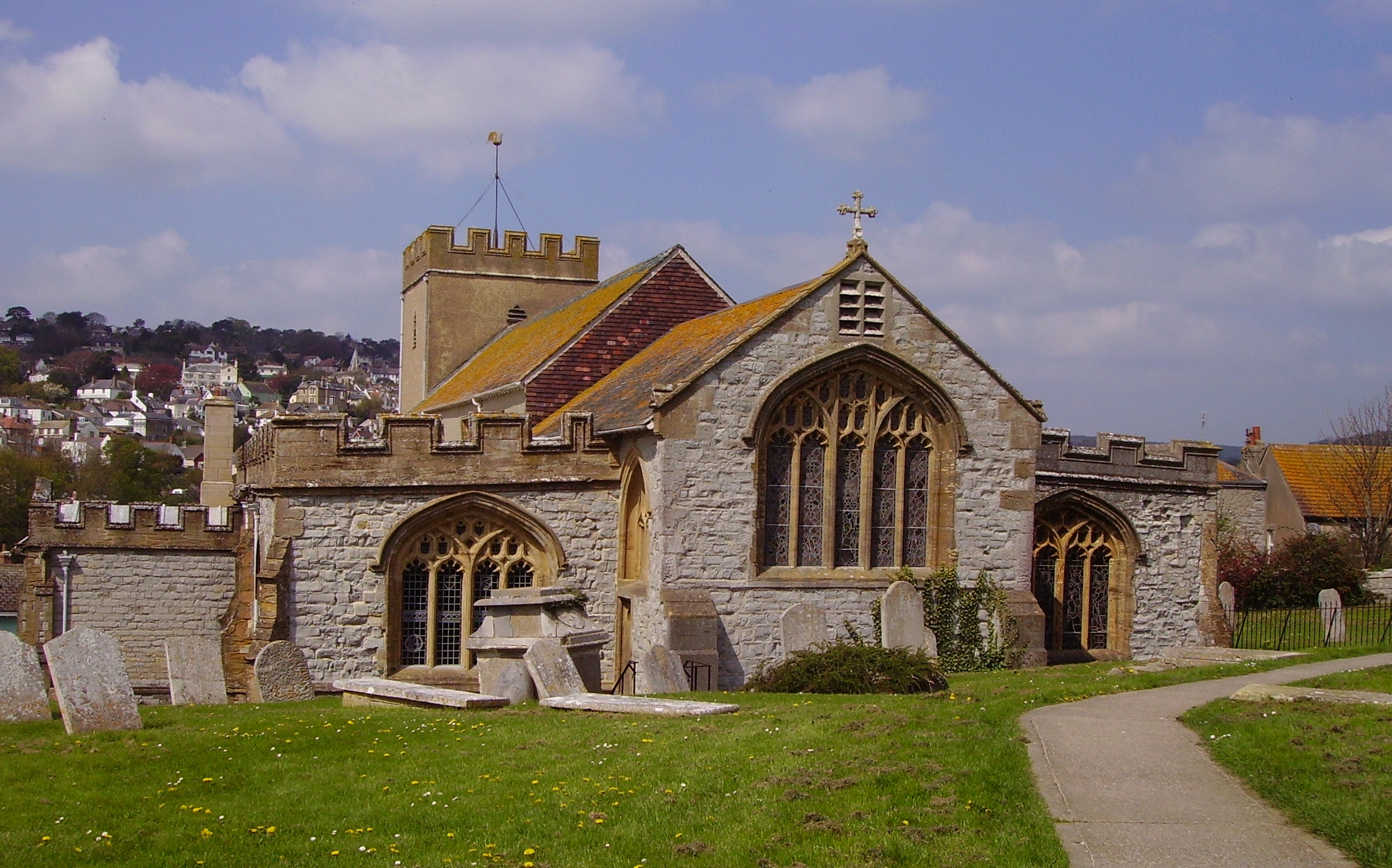 Photographer: User:Ballista Talk